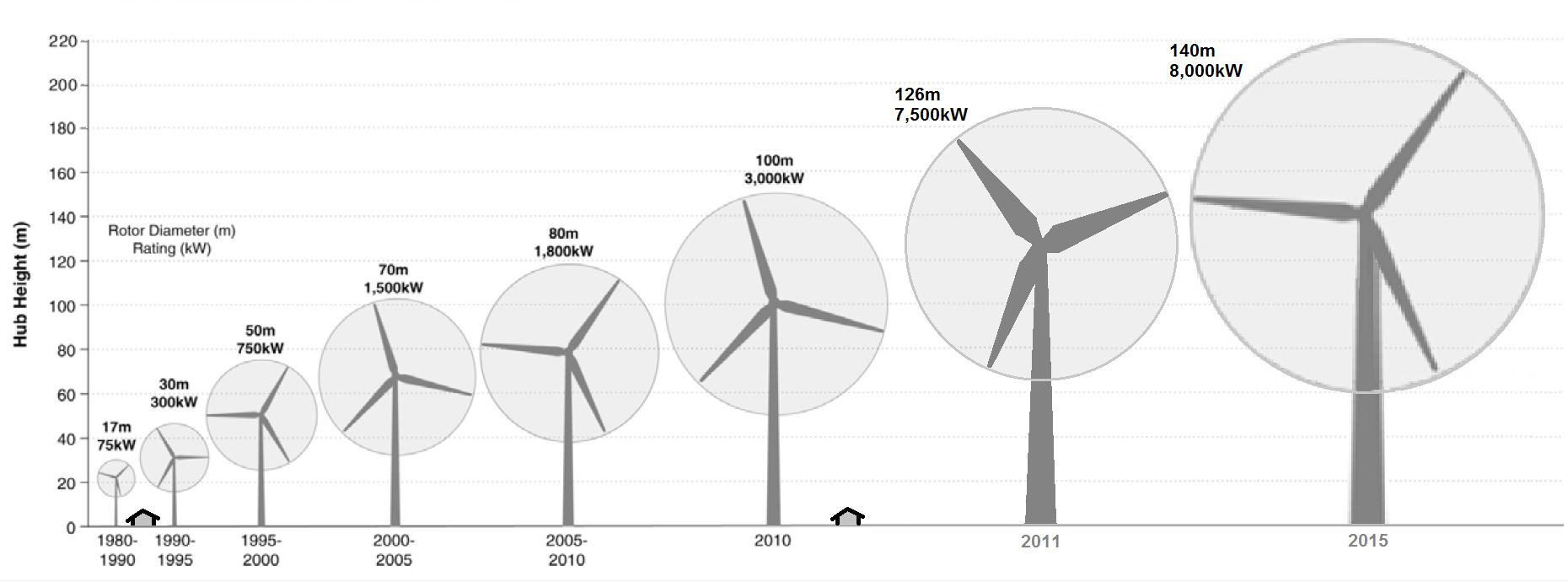 Wind turbine size increase 1980-2015, showing relative size of the swept area, as turbine size increased from 75 kW to 8 MW.